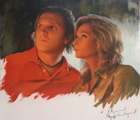 A self-portrait. Artists Konstantin Miroshnik, Natalia Kurguzov-Miroshnik